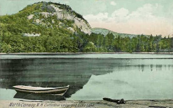 Cathedral Ledge and Echo Lake, North Conway, NH; from a 1914 postcard published by the Hugh C. Leighton Company, Portland, Maine.